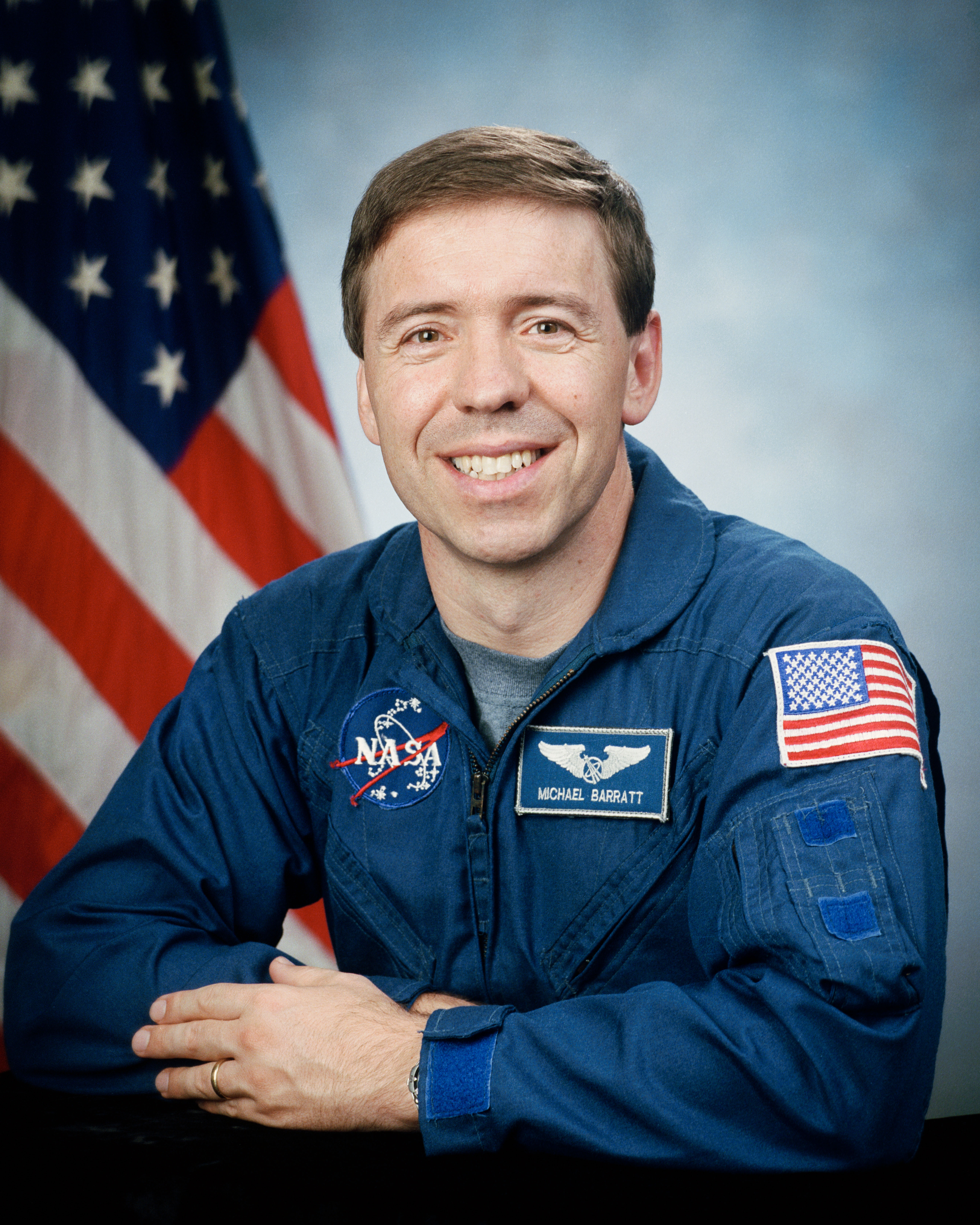 Michael Reed Barratt (M.D.) NASA Astronaut PERSONAL DATA: Born on April 16, 1959 in Vancouver, Washington. Considers Camas, Washington, to be his home town. Married to the former Michelle Lynne Sasynuik. They have five children. His father and mother, Joseph and Donna Barratt, reside in Camas, Washington. Personal and recreational interests include family and church activities, writing, sailing, boat restoration and maintenance.